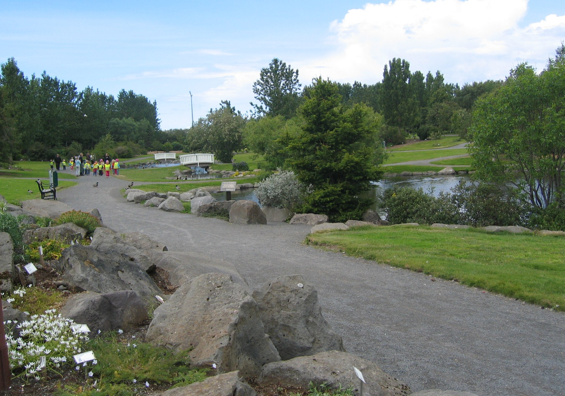 Photo by Salvor taken in the botanical garden in Reykjavik.